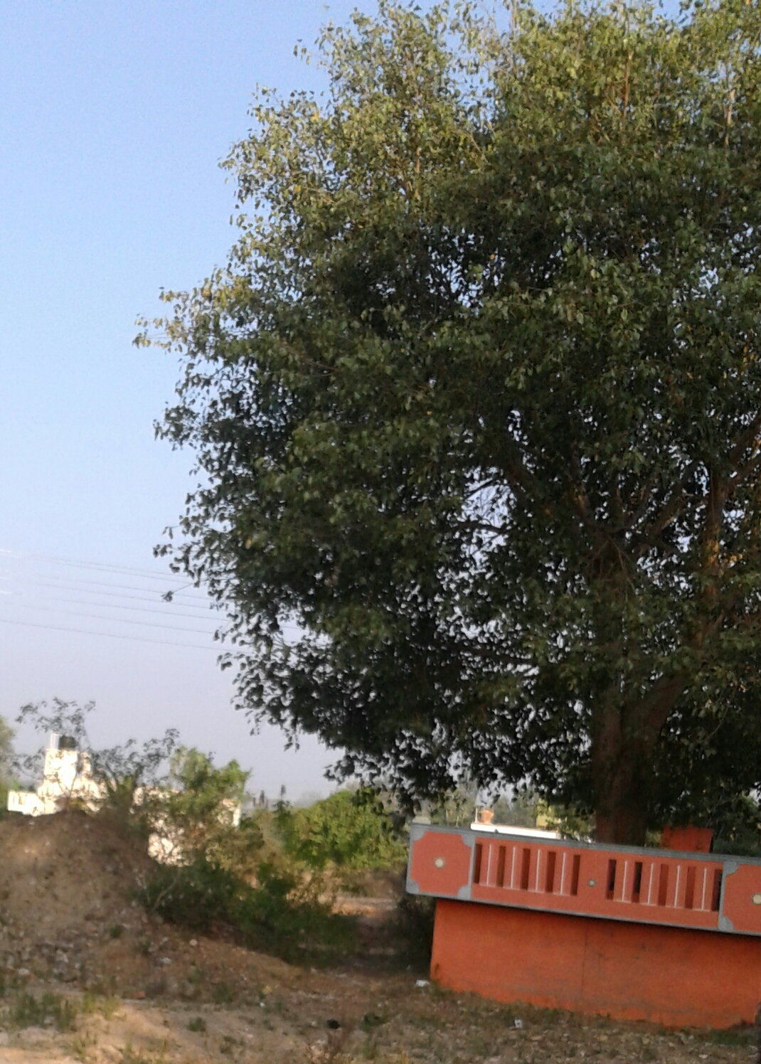 Choranahalli Varuna Village, Bannur Road, Near Alanahalli, Mysore city, Karnataka state, India.